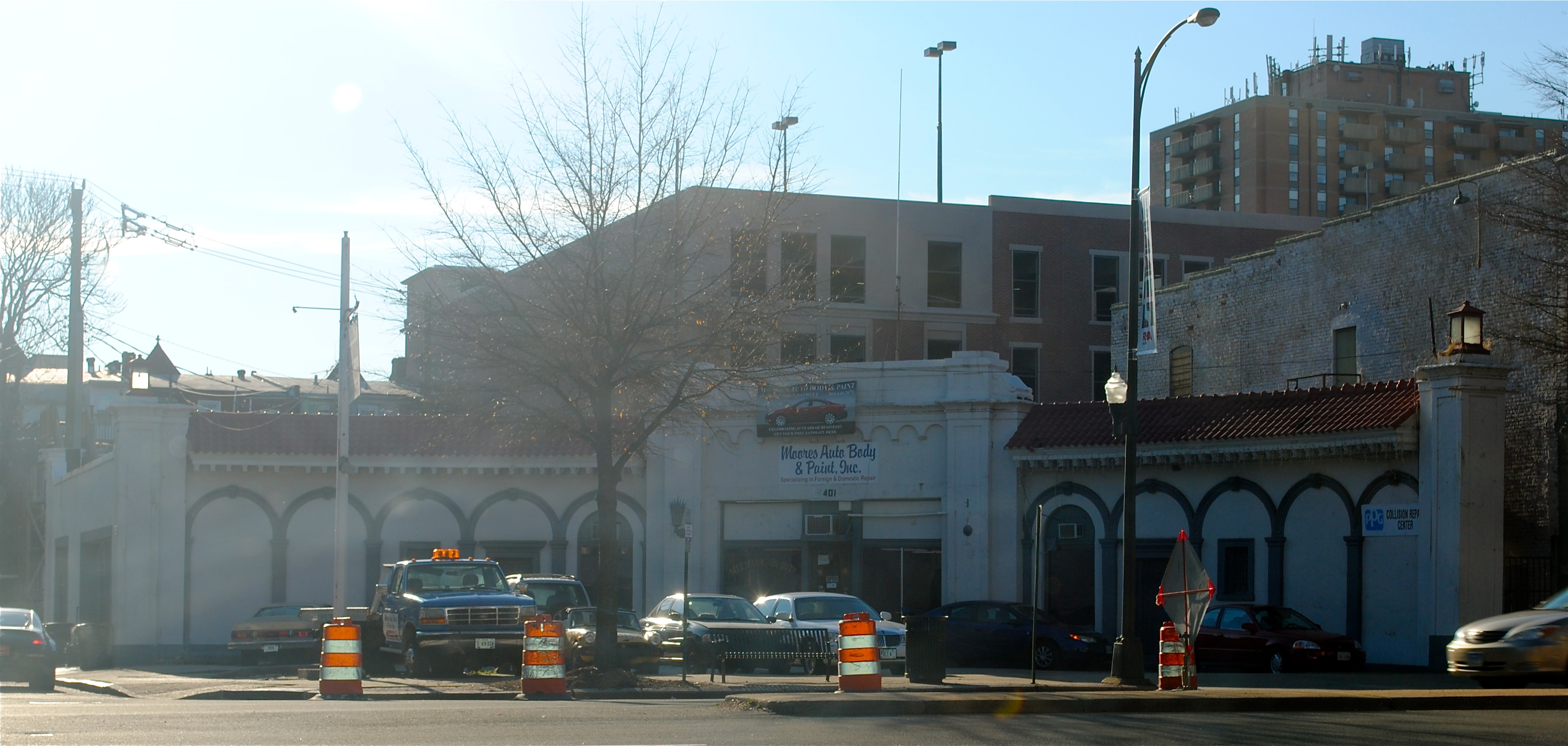 Moore's Auto Body and Repair Shop, Richmond, VA